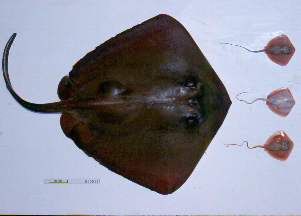 Bluntnose stingray (Dasyatis say) with embryos